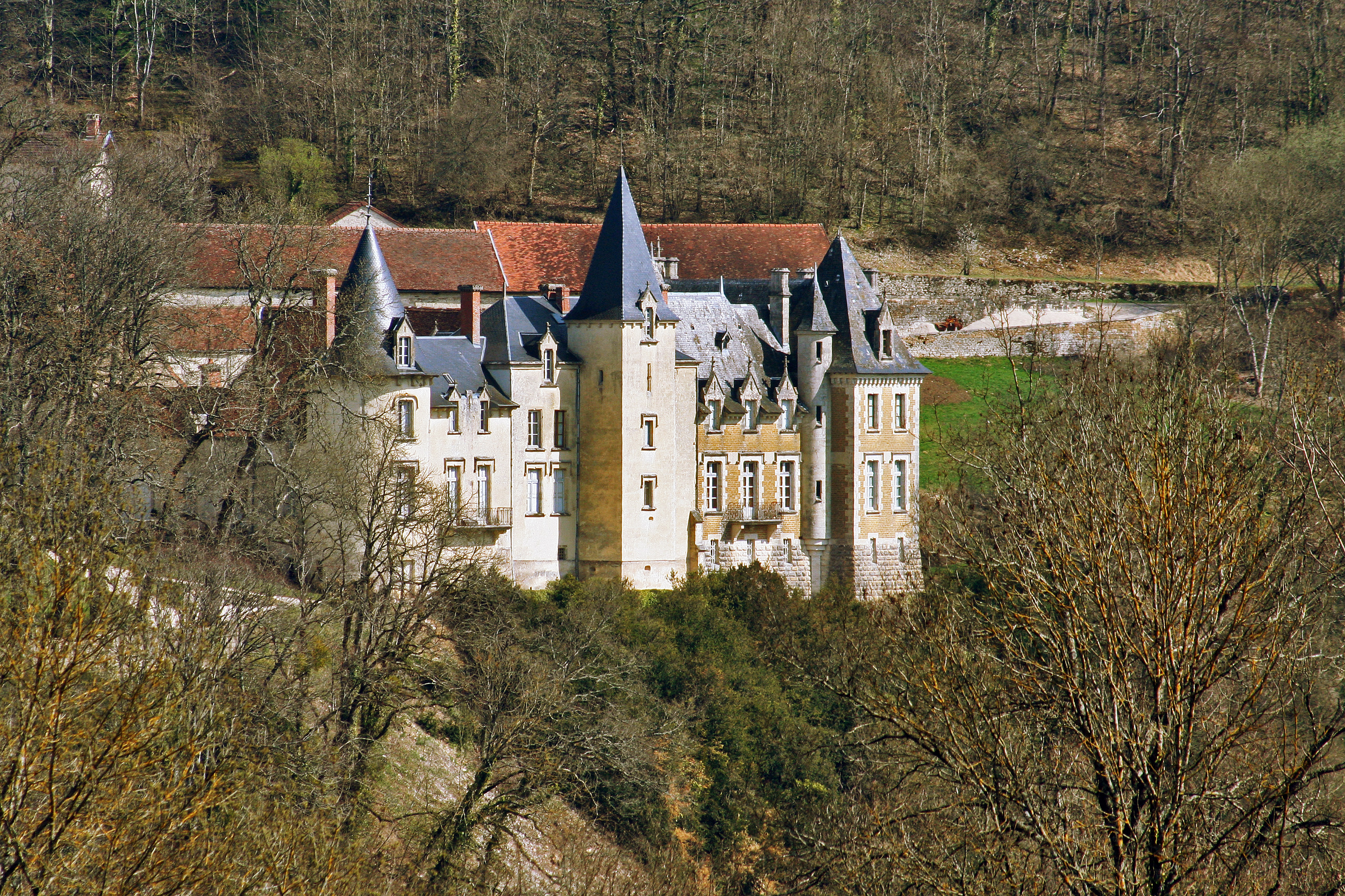 Castel of Rocheprise in Brémur